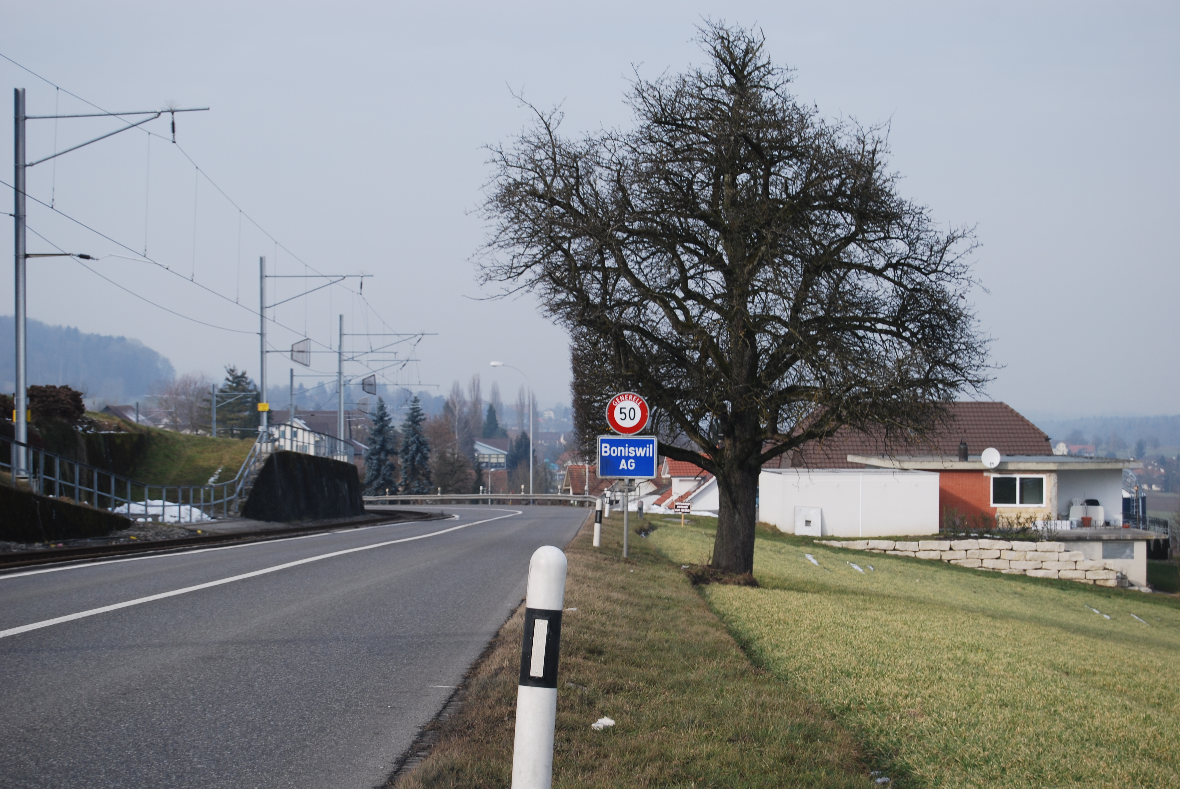 Village entry of Boniswil, canton of Aargau, SwitzerlandEsperanto: Vilaĝeniro de Boniswil, Kantono Argovio, Svislando